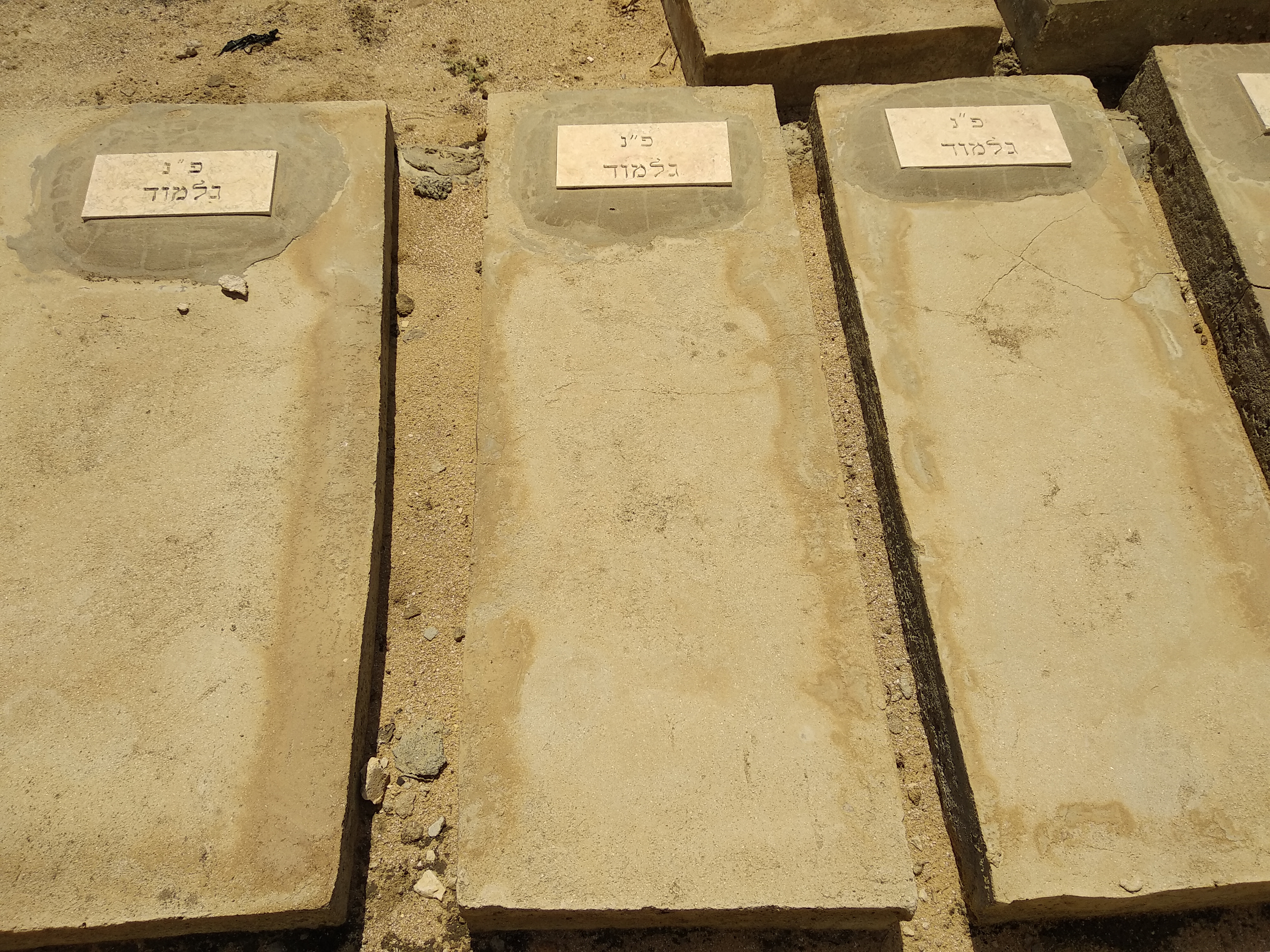 Graves of anonymous people in Trumpeldor cemetery